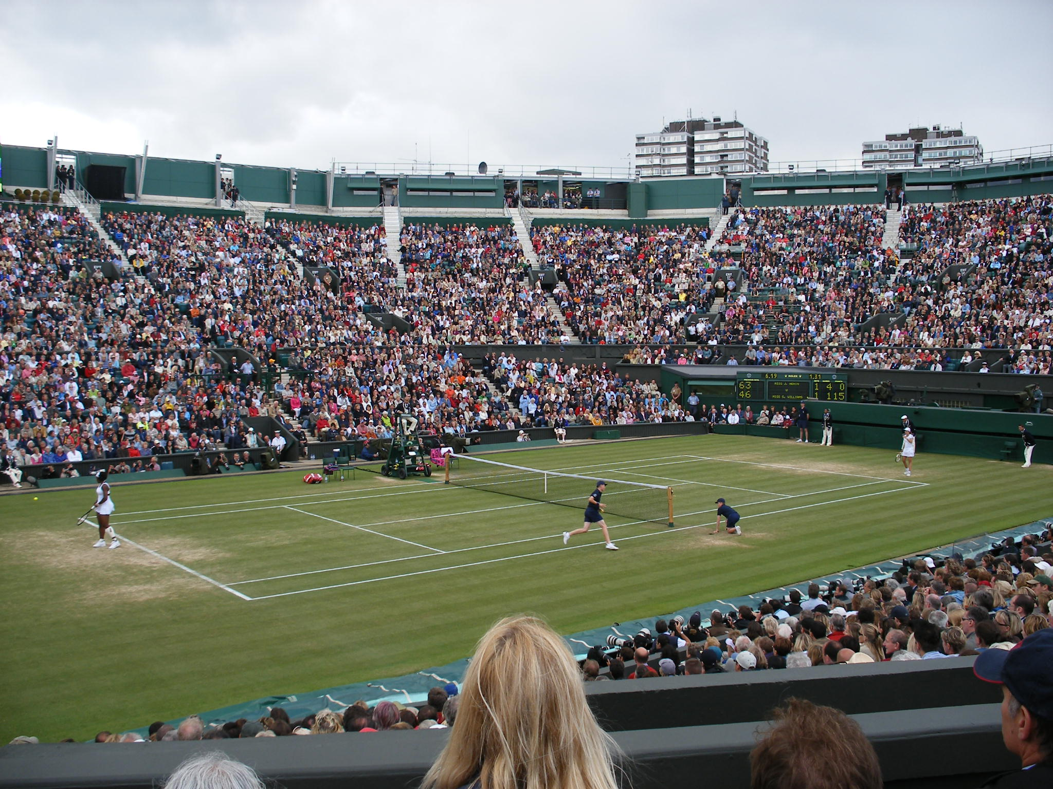 Justine Henin playing Serena Williams on Centre Court at Wimbledon (Henin won)